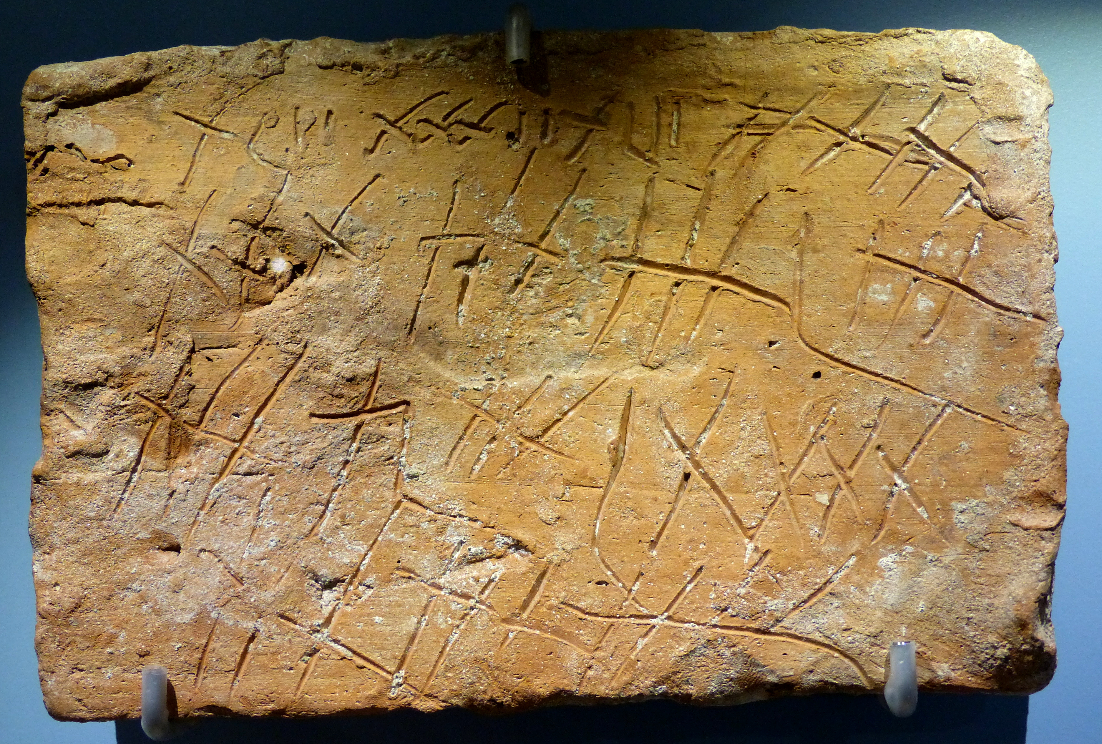 Enns ( Upper Austria ). Museum Lauriacum: Ancient Roman brick (3rd century AD ) from Enns with annotations in Roman numerals